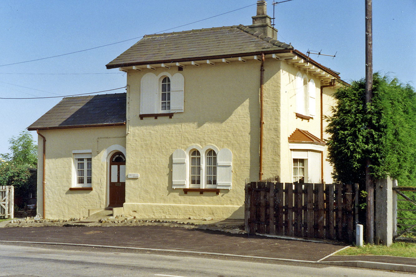 Former Aby (for Claythorpe) station, 1992. View NE: the former station house has been very well-preserved by new owners. It was on the ex-GNR main Peterborough - Boston - Grimsby 'Loop' line, regrettably closed north of Firsby South Junction from 5/10/70, this station having been closed earlier, on 11/9/61.